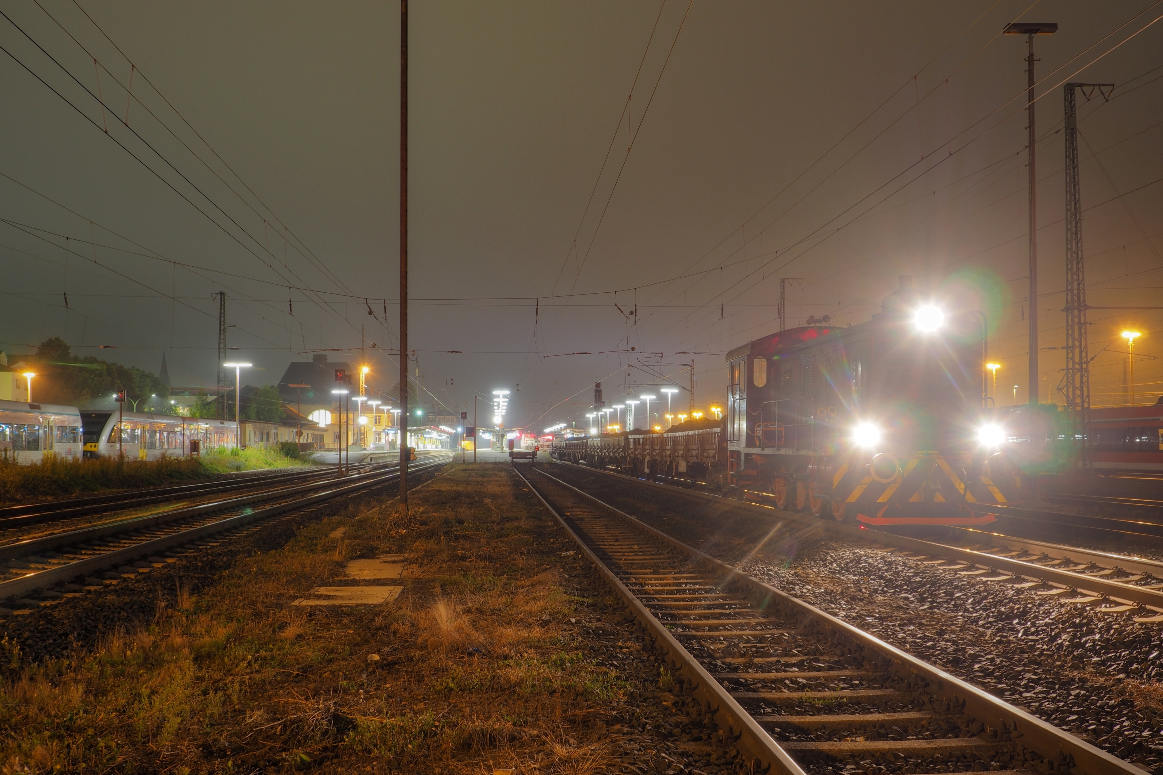 Loco #2 (WR 360 C 14) of the Eisenbahnfreunde Wetterau in track maintenance service at Friedberg (Hess) station